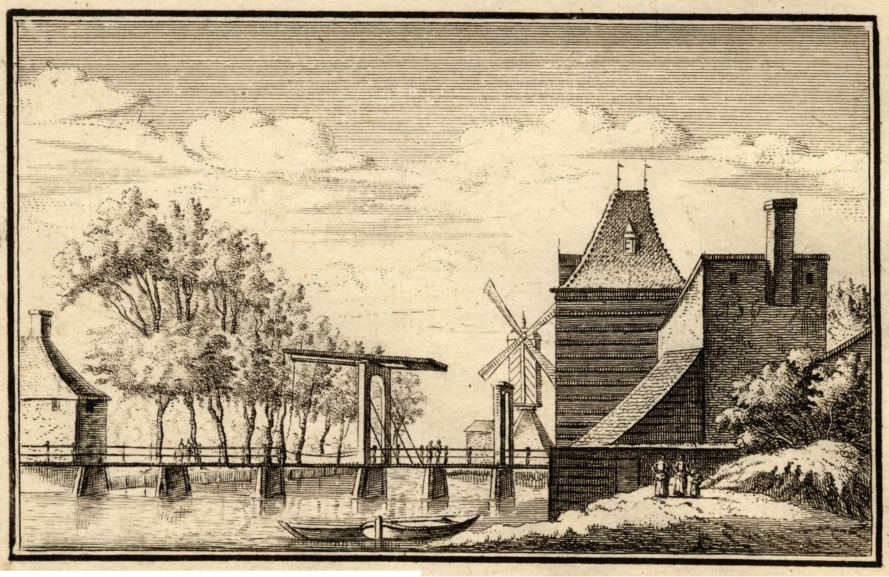 Marepoort (city gate) in Leiden showing the situation before 1666. In the background the windmill Papegaay (Parrot) can be seen. Both buildings are now demolished.